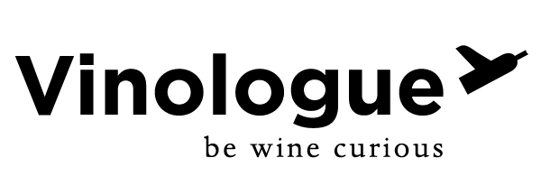 Revised logo and motto for Vinologue publishing.